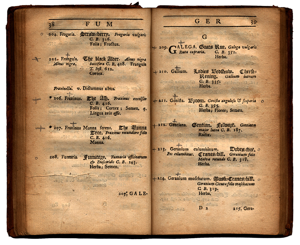 A page from a botanical listing of the Chelsea Physic garden